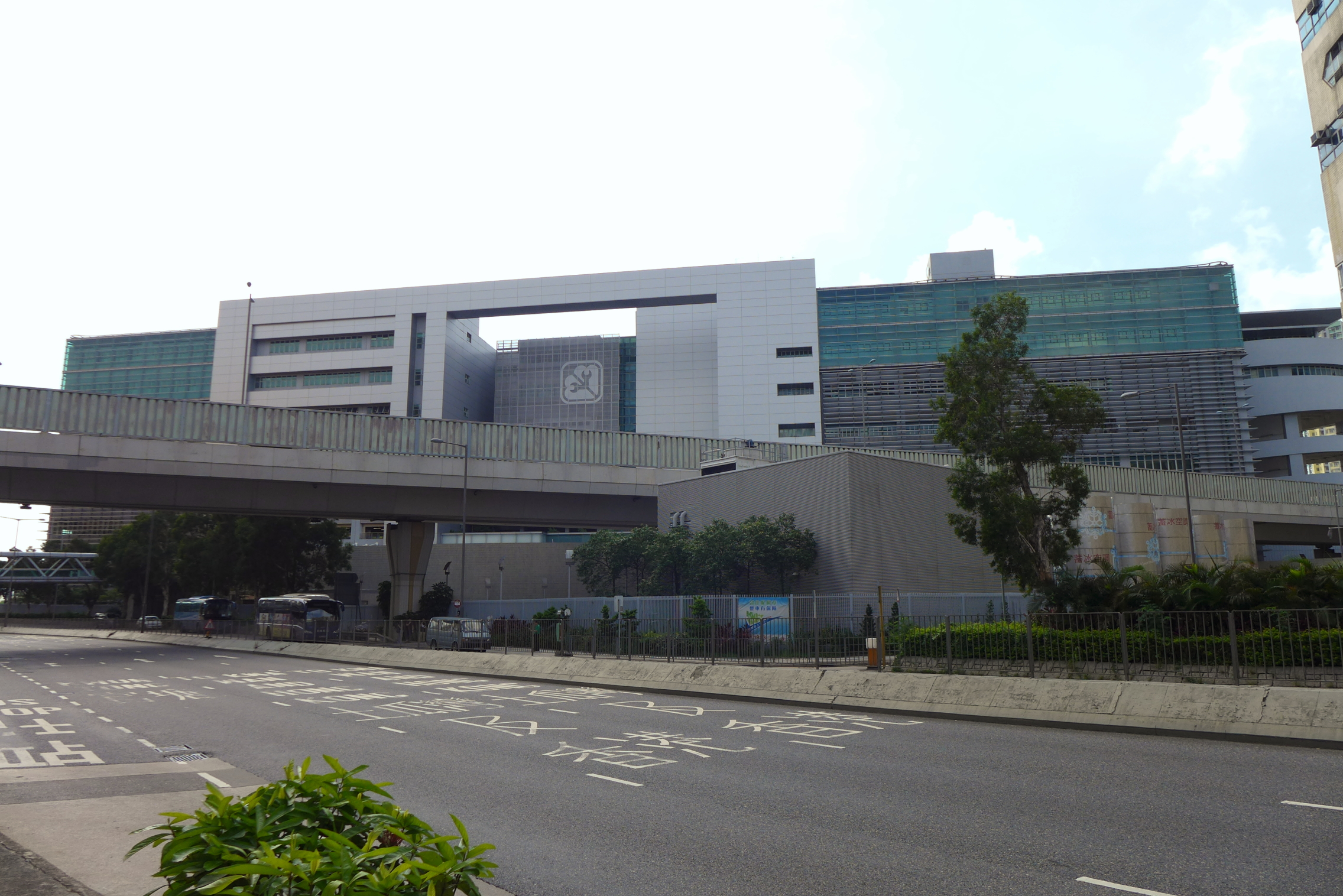 Electrical and Mechanical Services Department Headquarters